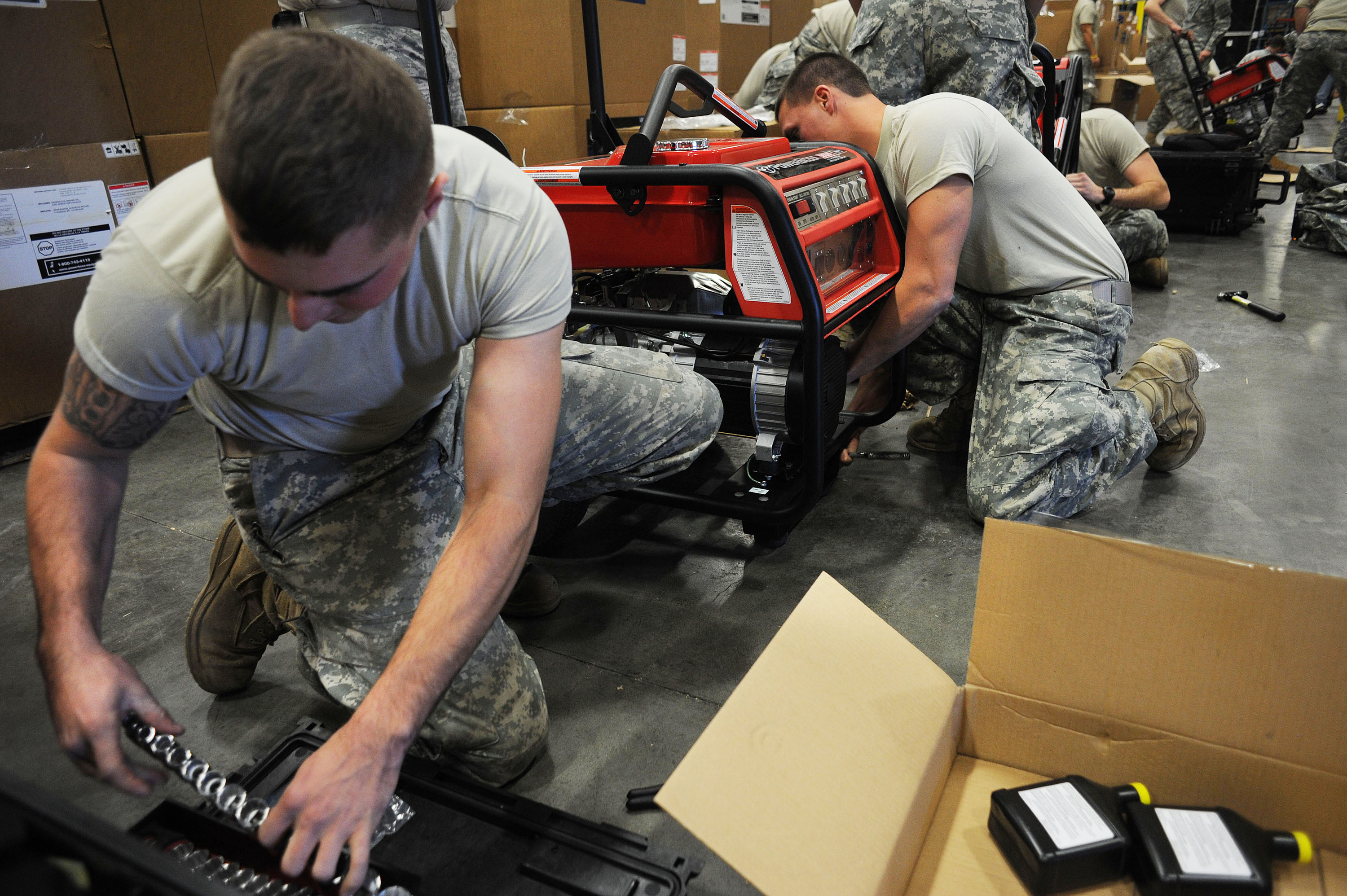 Soldiers with the New York Army National Guard's 206th Military Police Company, assemble portable generators in a warehouse in Brentwood, N.Y., Sunday, Nov. 4, 2012. Soldiers from the unit helped assemble several hundred generators, to be used at polling places in the New York City area that remain with power as a result of Hurricane Sandy. (U.S. Army Photo by Sgt. 1st Class Jon Soucy)(Released)